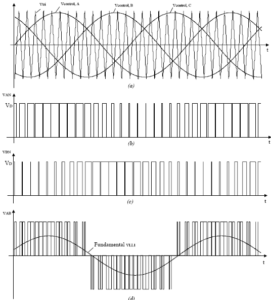 formacion de la señal senoidal con PWM